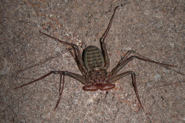 Phrynus mexicanus (?) from Baja California.